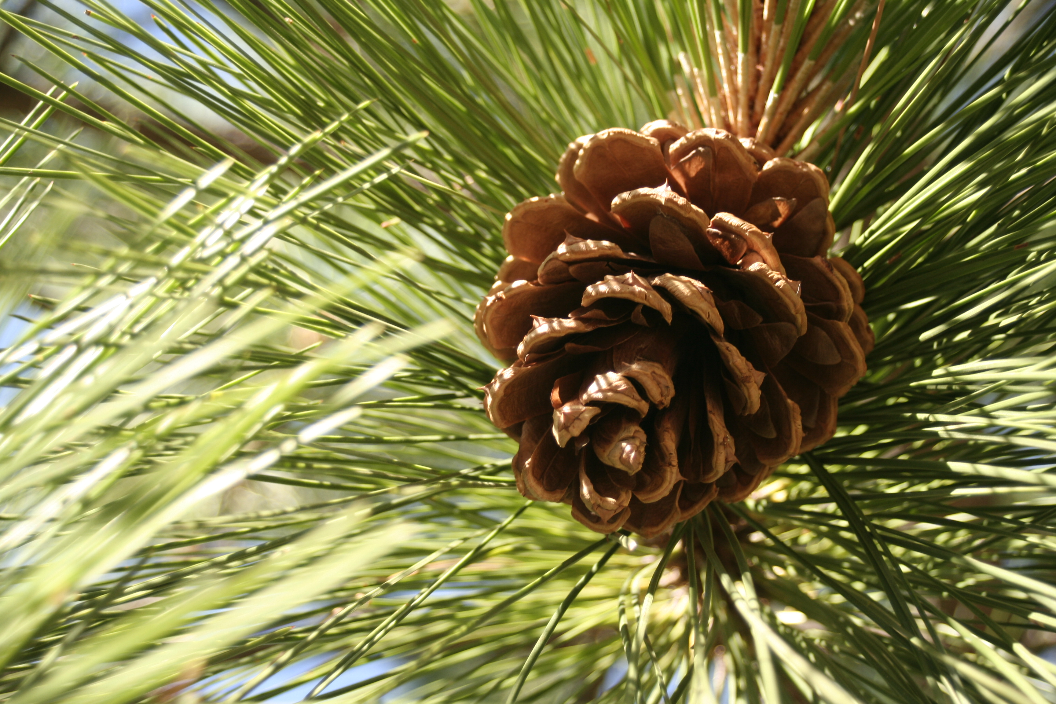 Pacific Ponderosa Pine (Pinus ponderosa ssp. benthamiana / Pinus benthamiana) cone. Yosemite, Sierra Nevada - California